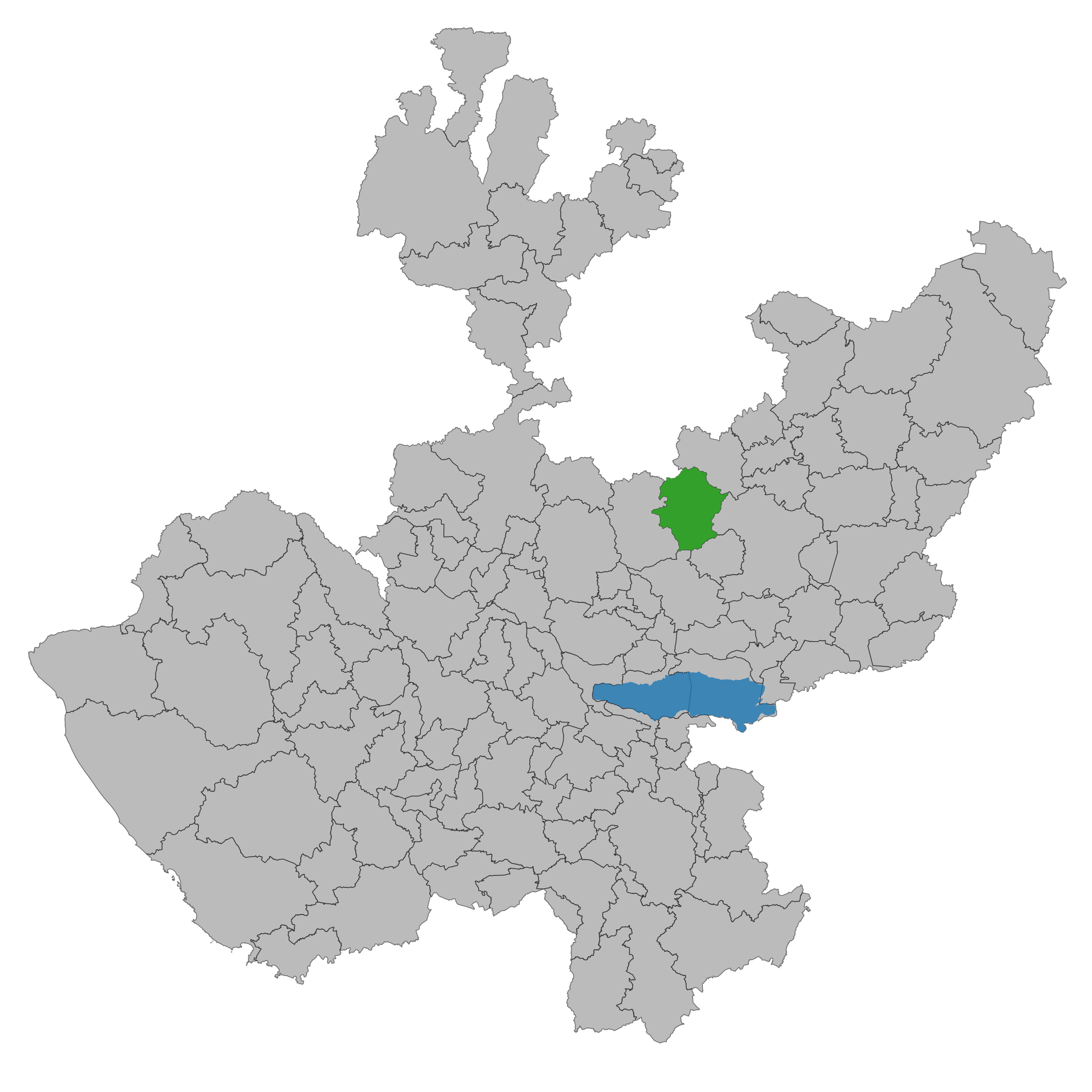 Municipality of Jalisco. Prepared with the software QGIS version 2.8.2 Wien & with information of SCINCE 2010 version 05/2013